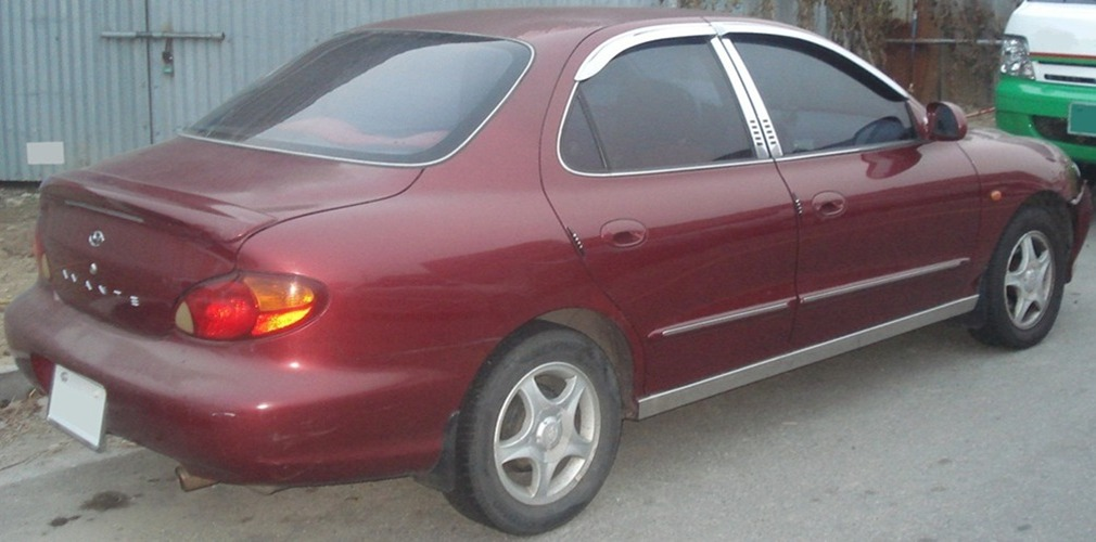 Hyundai All New Avante